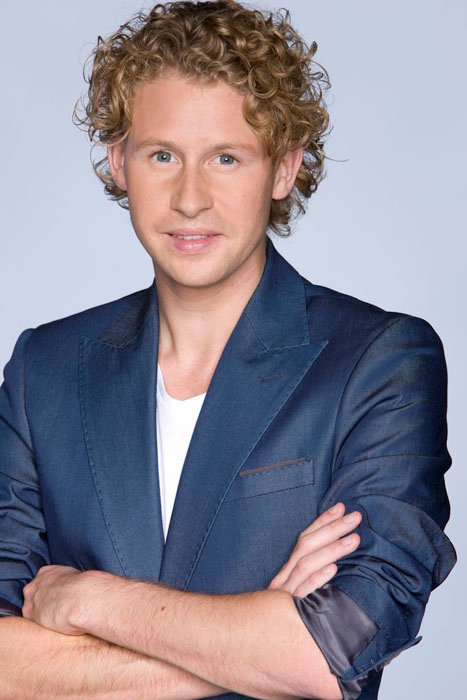 Ewout Genemans (AVRO)